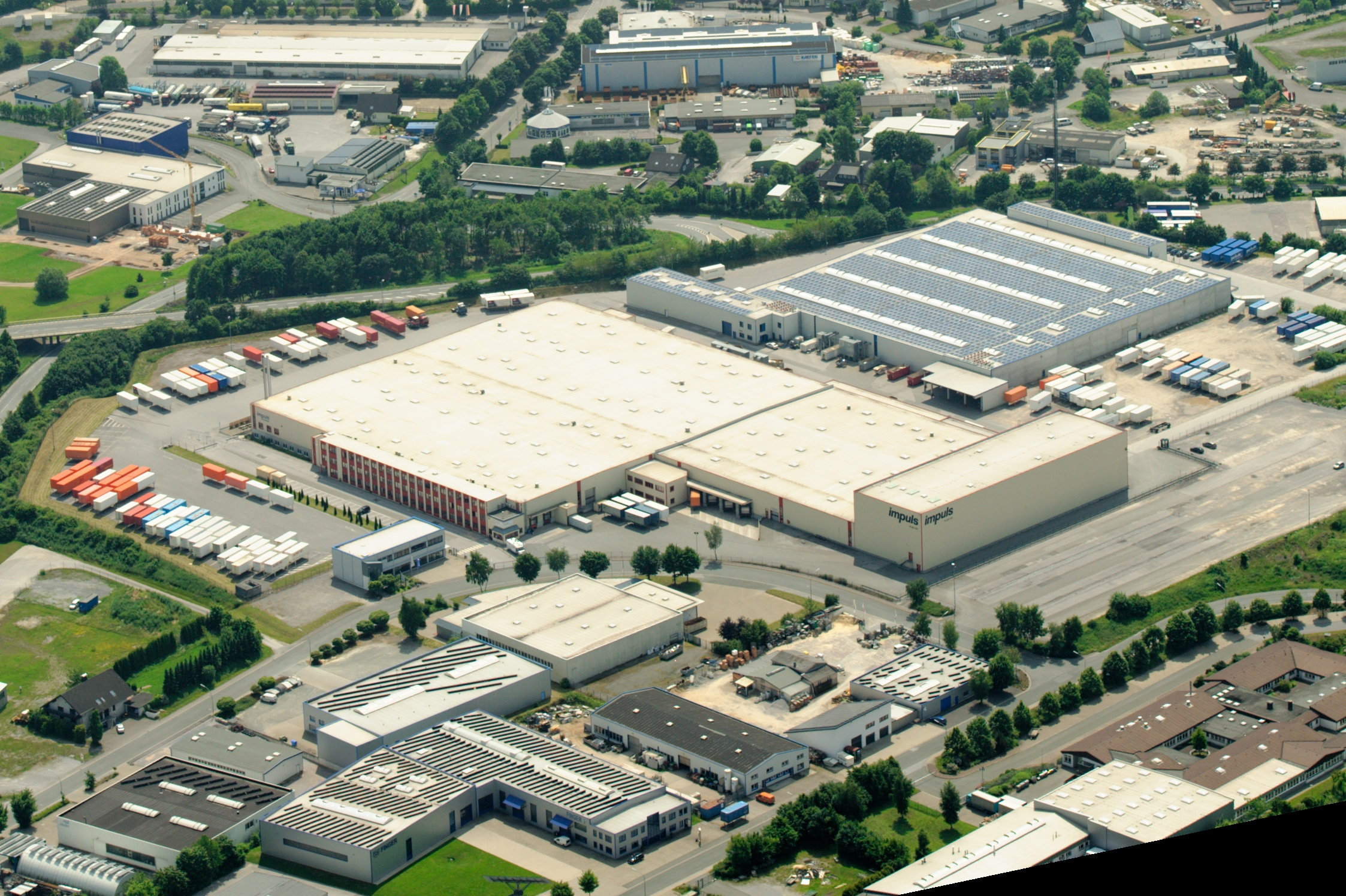 Fotoflug Sauerland-Ost – Gewerbegebiet Brilon, in der Mitte Impuls Küchen The making of this document was supported by the Community-Budget of Wikimedia Germany.